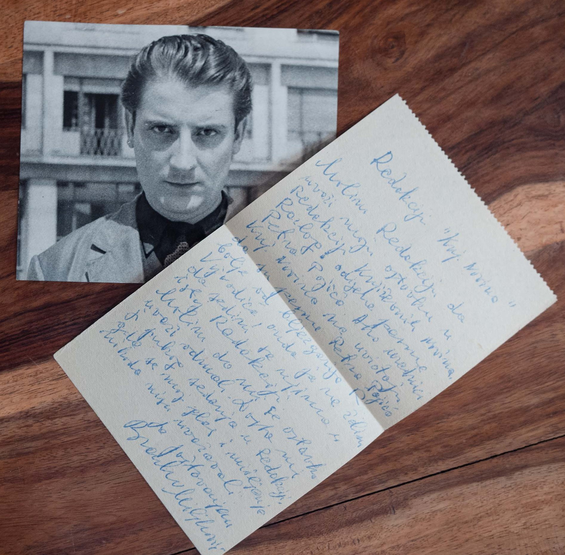 Branko Miljkovic letter regarding Petar Pajic. Original can be found in the Society for Culture, Art and International Cooperation Adligat in Belgrade, Serbia. Српски (ћирилица): Писмо Бранка Миљковића редакцији листа "Дело", у вези песама Петра Пајића. Оригинал се налази у Удружењу за културу, уметност и међународну сарадњу Адлигат у Београду.